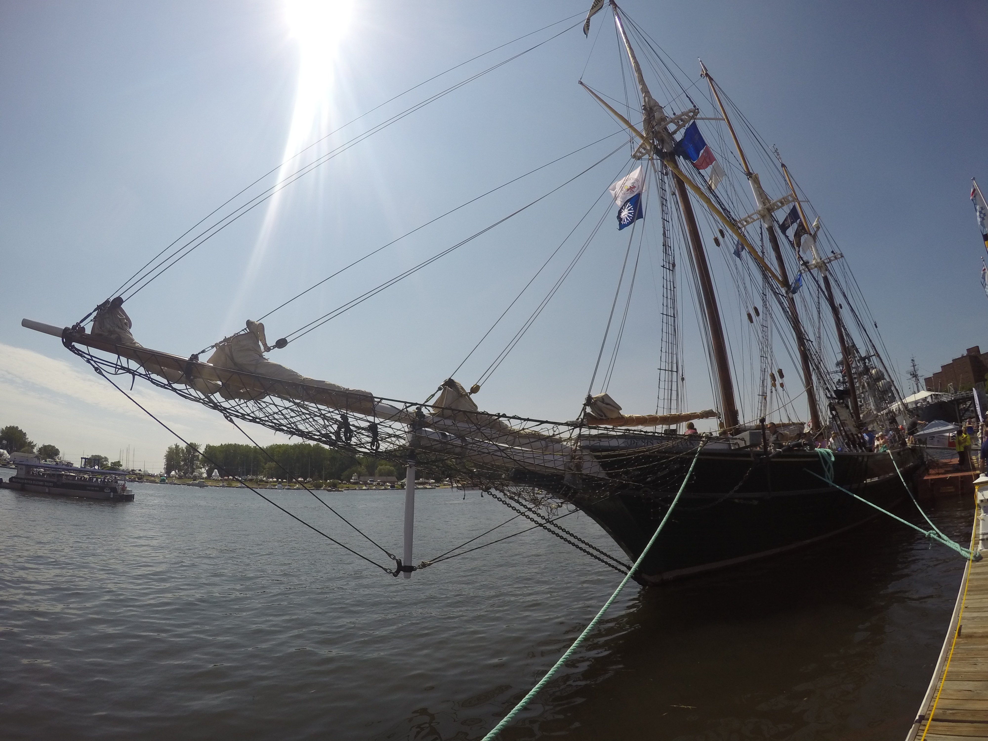 Schooner Denis Sullivan at the Buffalo Tall Ships Festival on July 07, 2019 Canalside